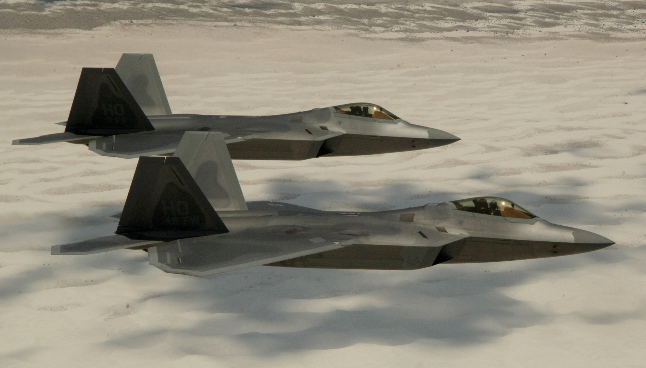 Col. Jeff Harrigian, 49th Fighter Wing commander, and Lt. Col. Mike Hernandez, 7th Fighter Squadron commander, fly F-22 Raptors June 2 over White Sands National Monument on the way to their home base, Holloman Air Force Base, N.M.